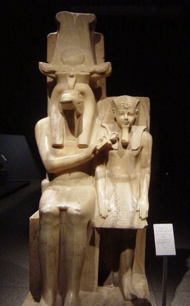 Statue of Sobek and Amenhotep III, currently in the Luxor Museum, in Egypt. Probably originally from Dahamsha